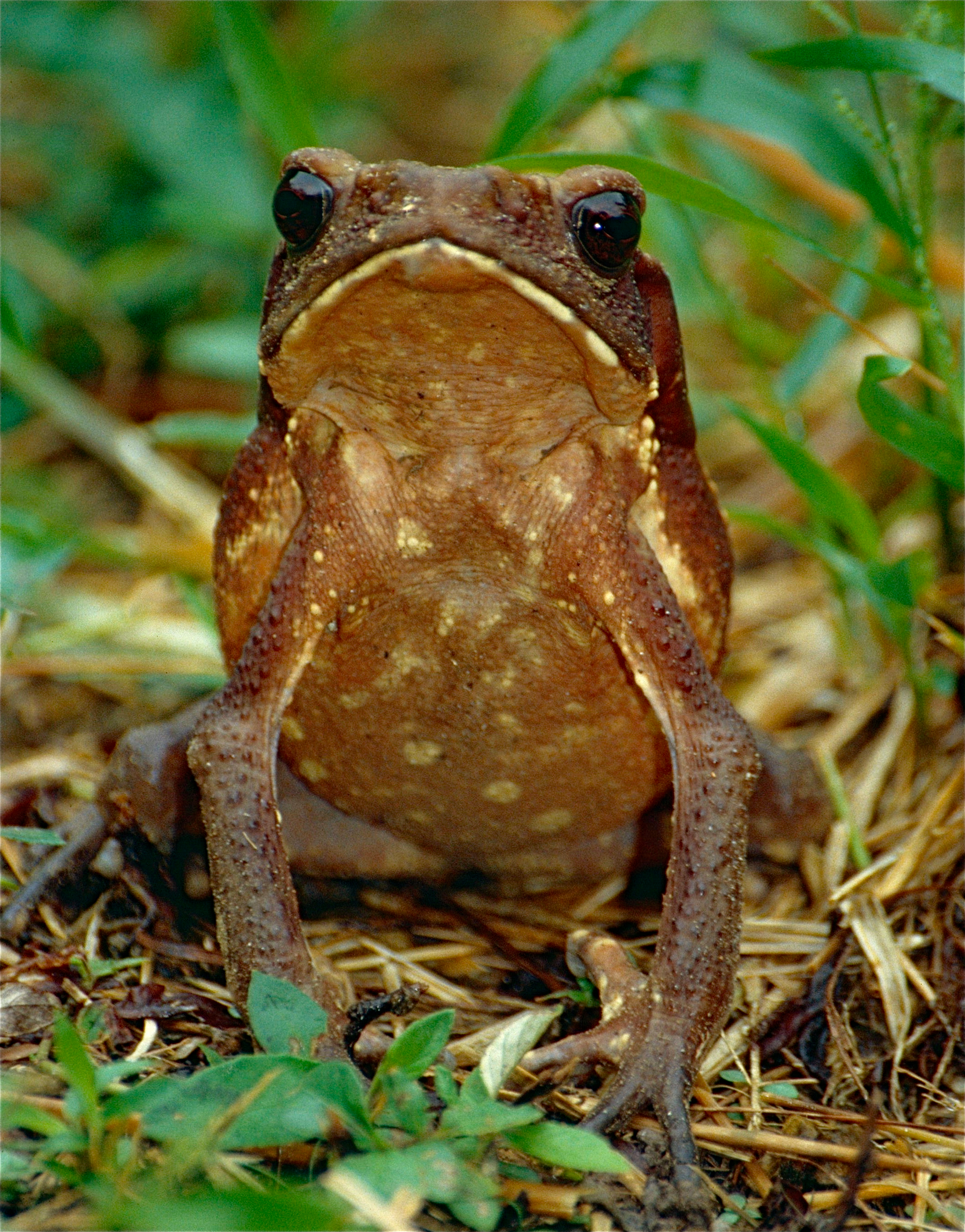 Route de Regina, Guyane, FRANCE Scanned Slide from 2000